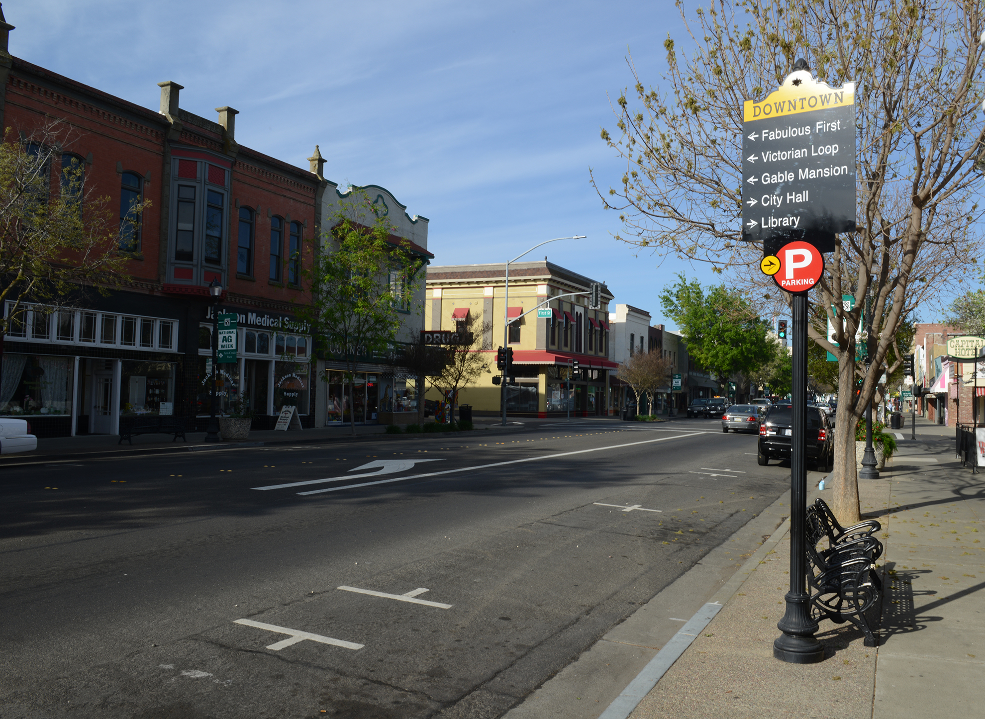 Downtown Main Street Woodland CA First and Main St.